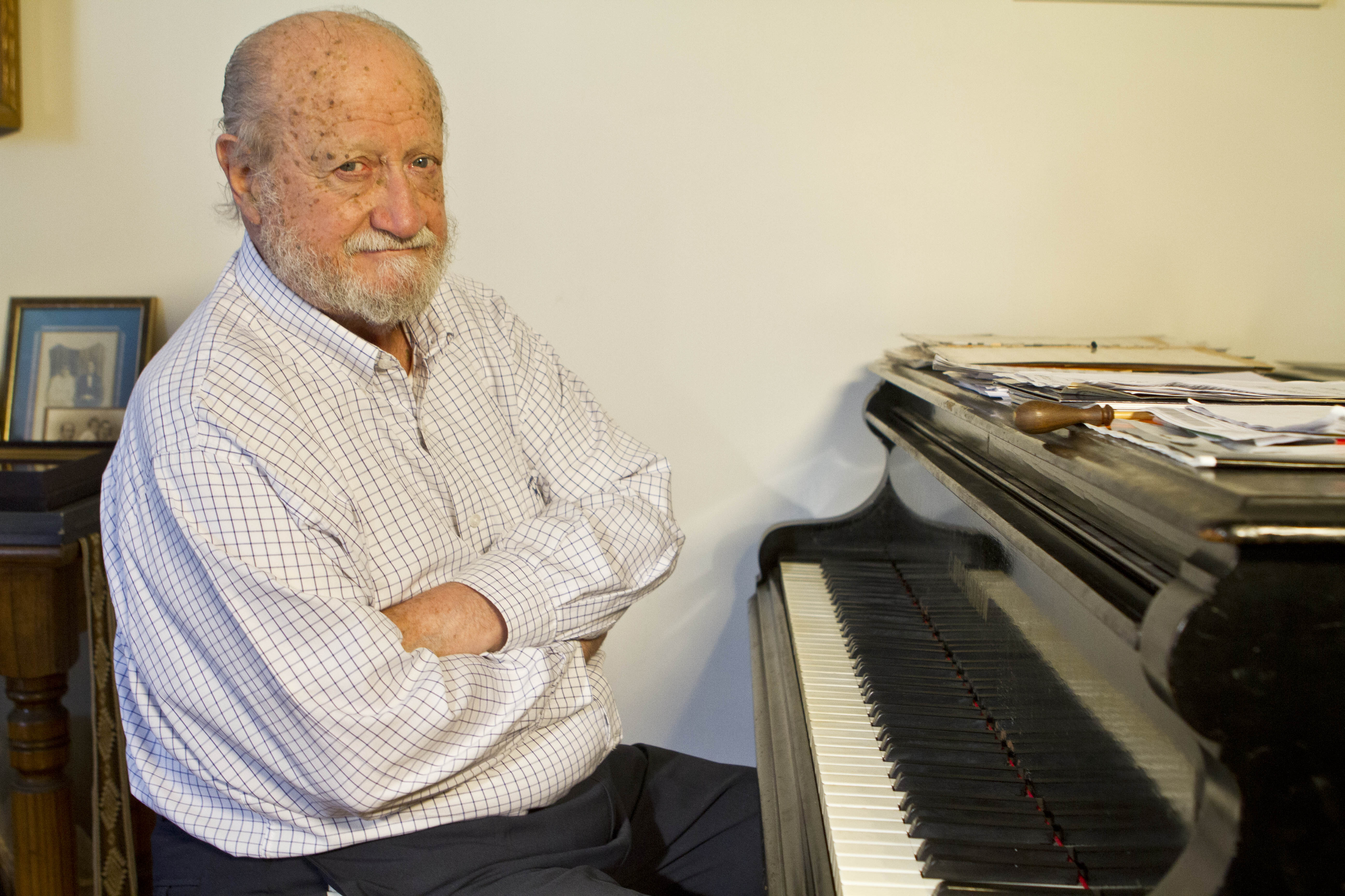 Argentine conductor Pedro Ignacio Calderón on an interview for "Voces". Picture by Silvina Frydlewsky / Ministerio de Cultura de la Nación